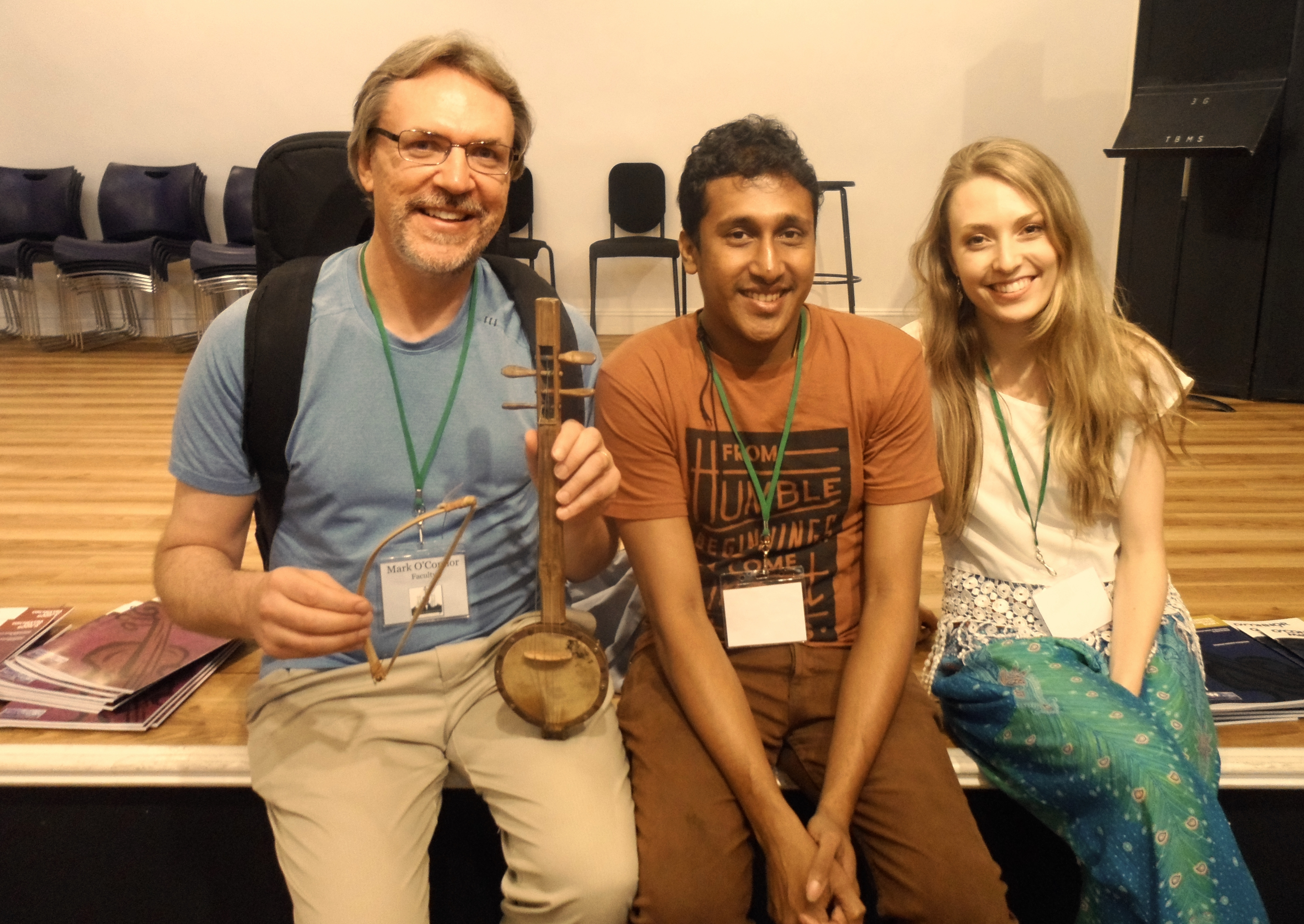 Mark O'connor & Dinesh Subasinghe during his Ravanahatha Performance in Newyork 2016